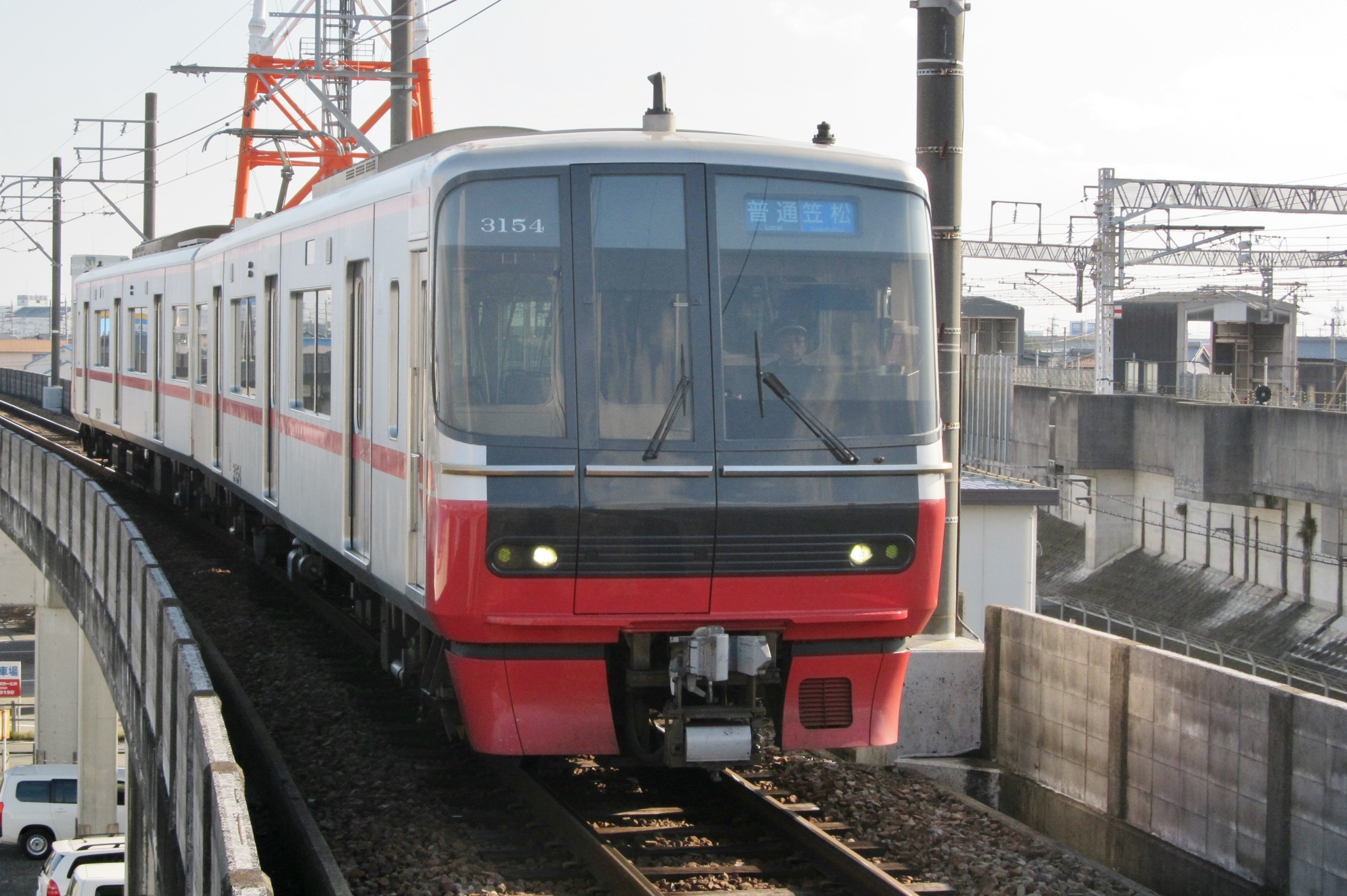 Meitetsu 3150 series. Bound for Shin Hashima.